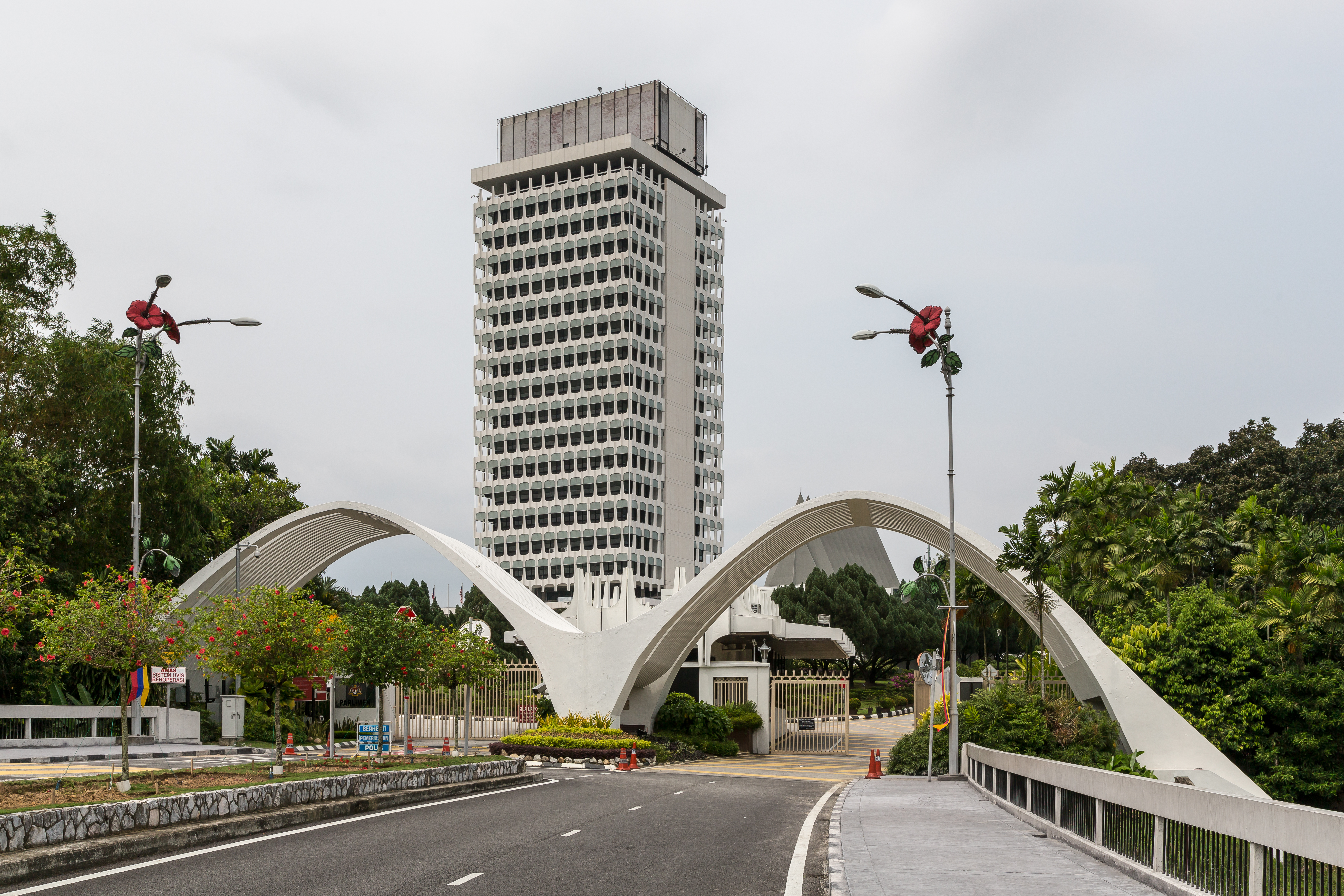 Kuala Lumpur, Malaysia: Bangunan Parlimen Malaysia (Parliament)